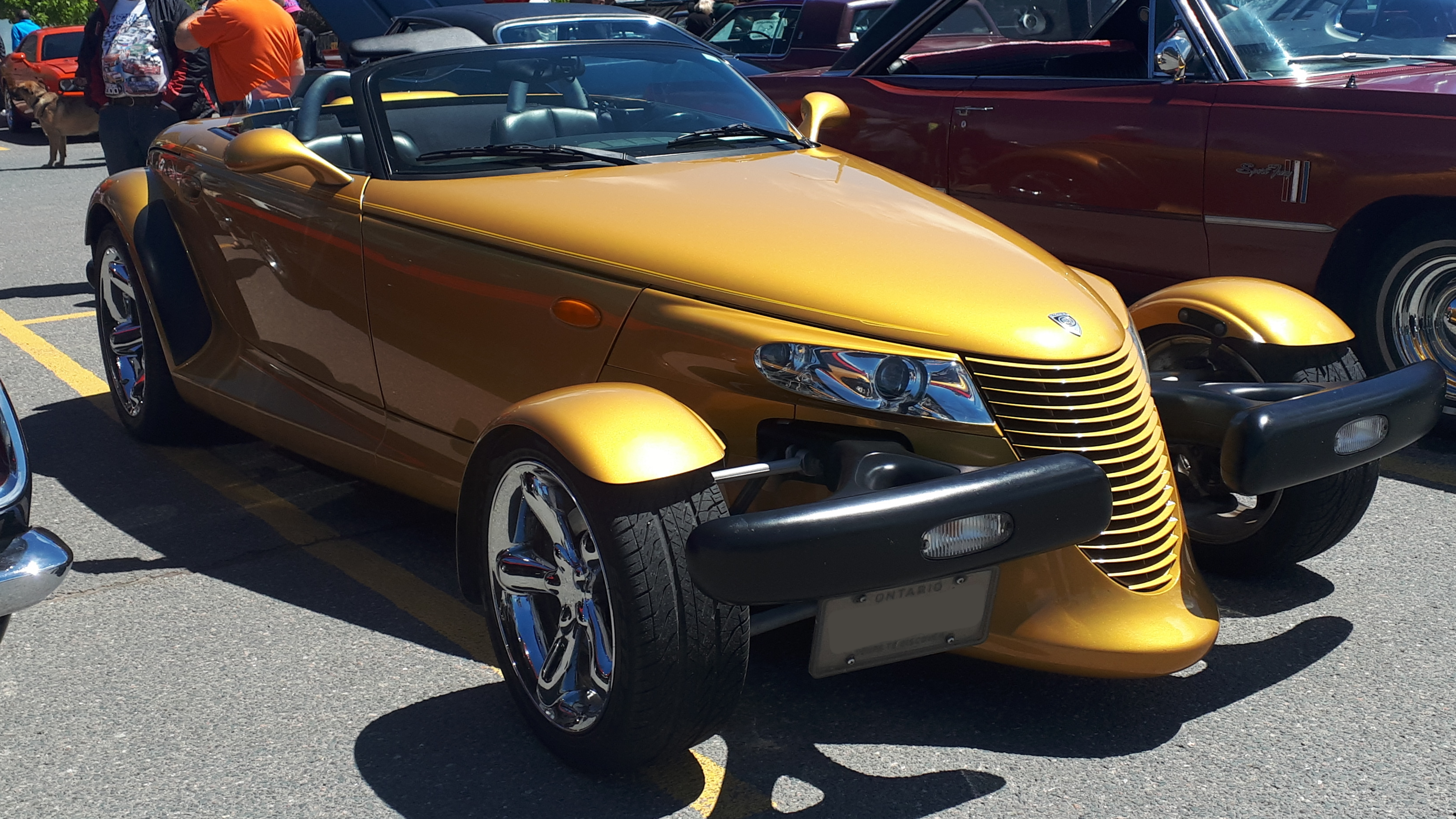 2001-2002 Chrysler Prowler photographed in Sault Ste. Marie, Ontario, Canada at the 4th annual Queen Street Cruise.